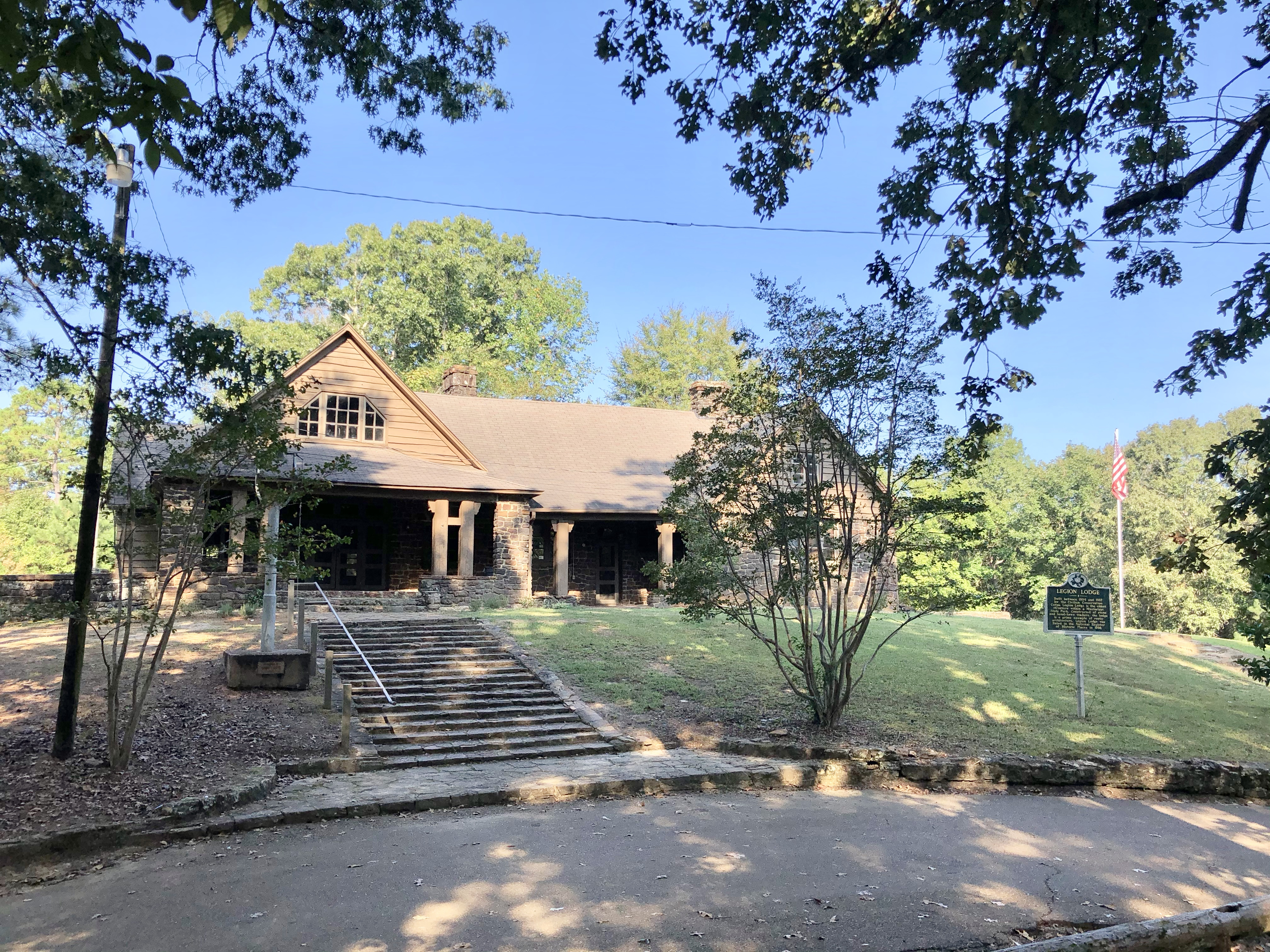 Built between 1934 and 1937 by the Civilian Conservation Corps, the lodge is at the northern most point in the Legion Lodge Park.